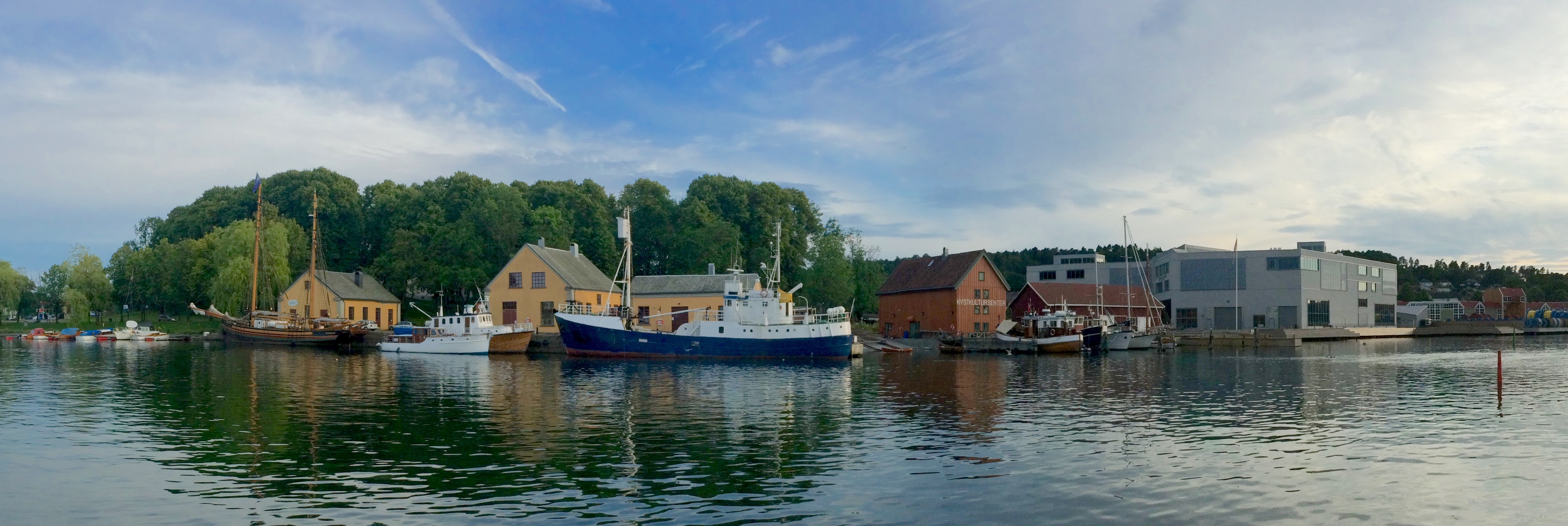 Tonsberg Kystkultursenter Kanalen Faerder vgs Norway 2015-07-22 cropped distorted panorama